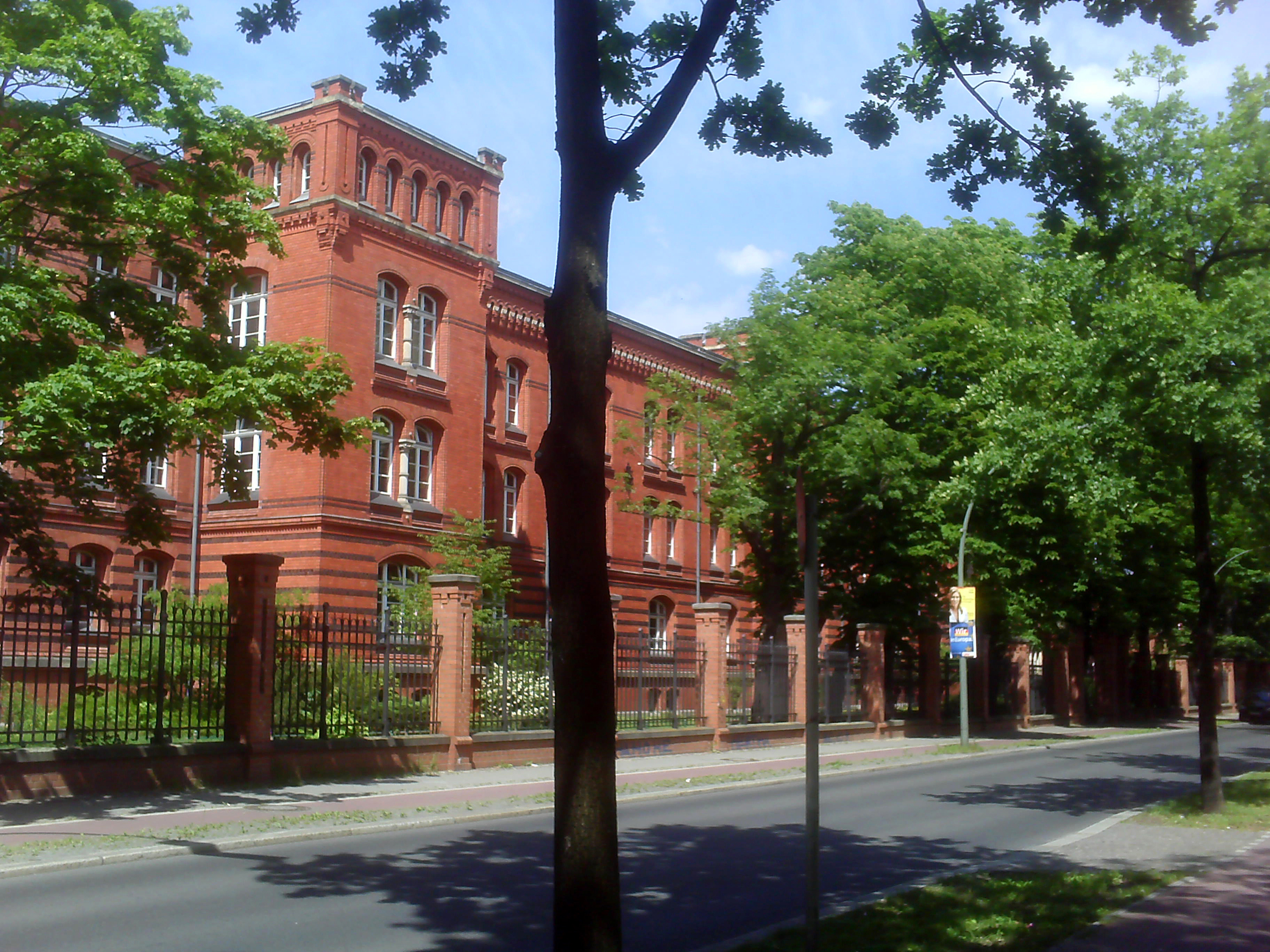 former Smuts Barracks in Wilhelmstrasse in Spandau in May 2009. It's also the former Army Education Centre.